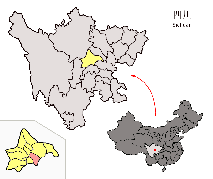 Location of Shuangliu County (pink) and Chengdu Prefecture (yellow) within Sichuan province of China Map drawn in september 2007 using various sources, mainly : Sichuan province administrative regions GIS data: 1:1M, County level, 1990 Sichuan Counties map from